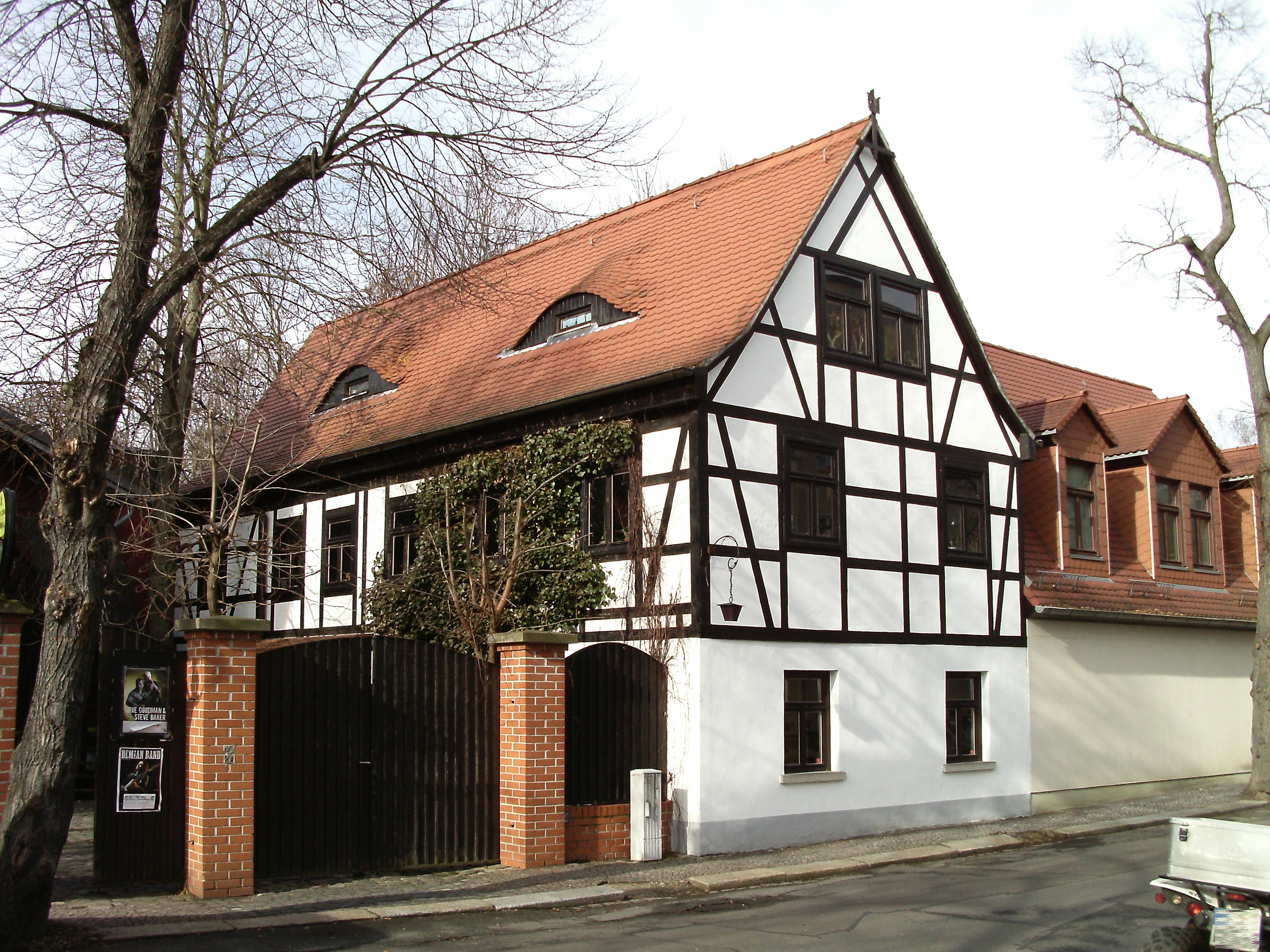 Geyser's House in Eutritzsch, a district of Leipzig (Saxony)